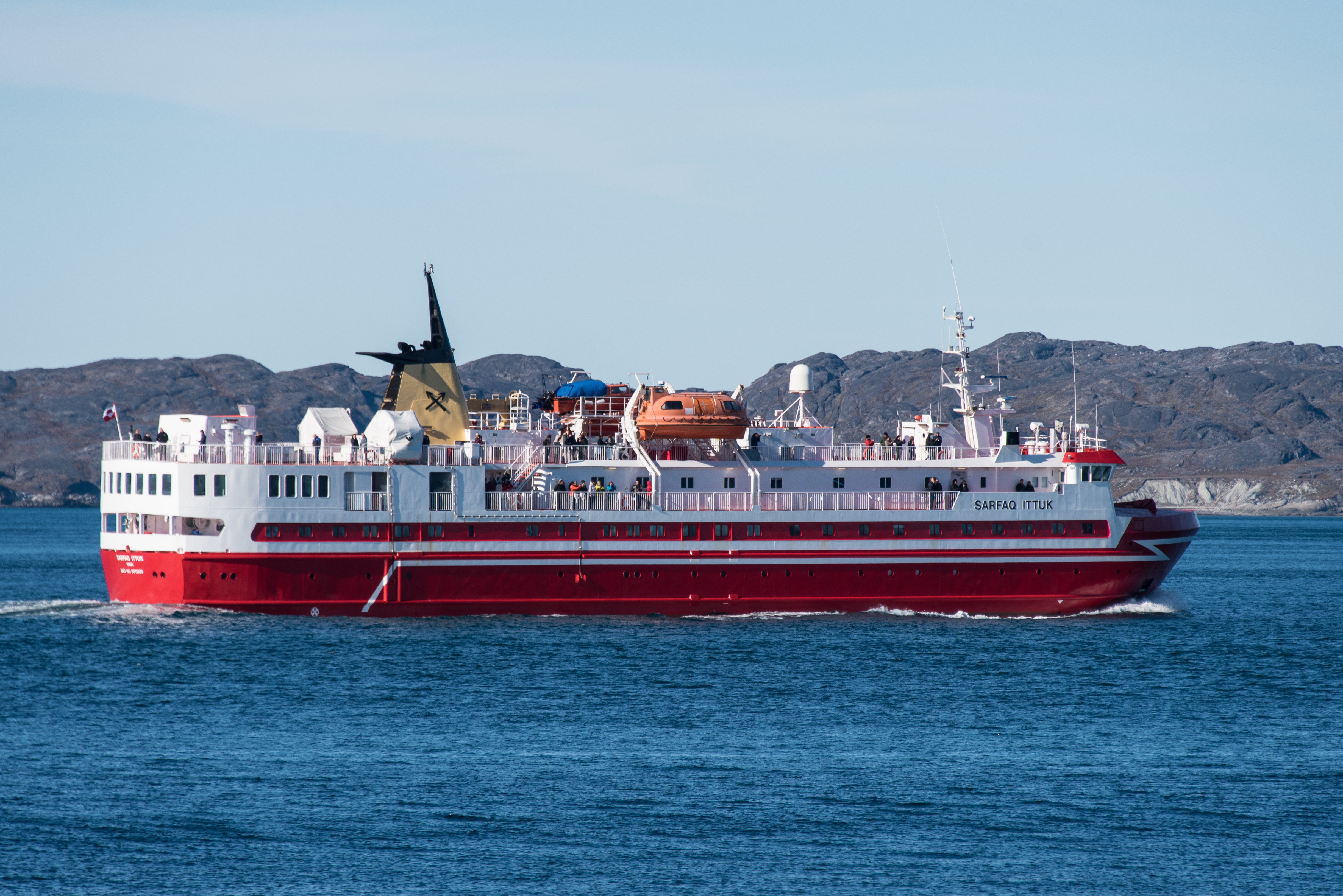 Arctic Umiaq ferry, SARFAQ ITTUK - IMO 8913899, passing Old Harbor in Nuuk, Greenland on September 19, 2017.